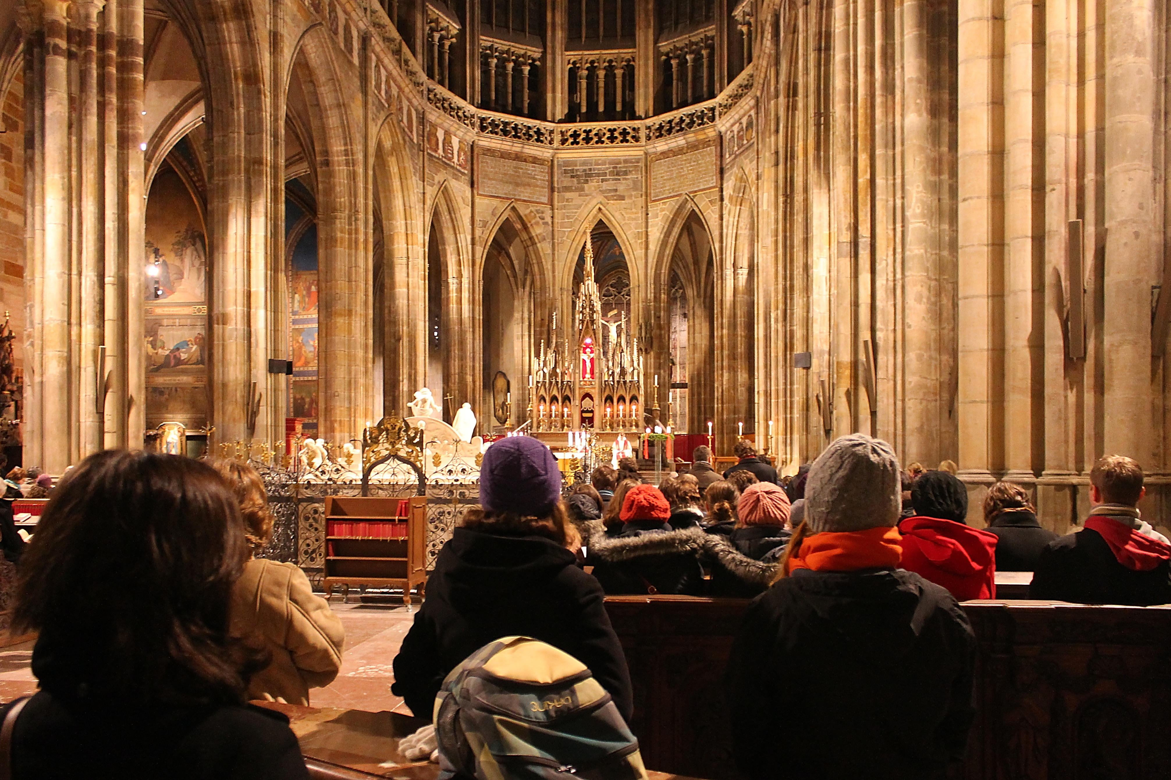 Rorate Mass in the Saint Vitus Cathedral in Prague, the feast of St. Lucy, 13th December 2013, Prague, Czech Republic